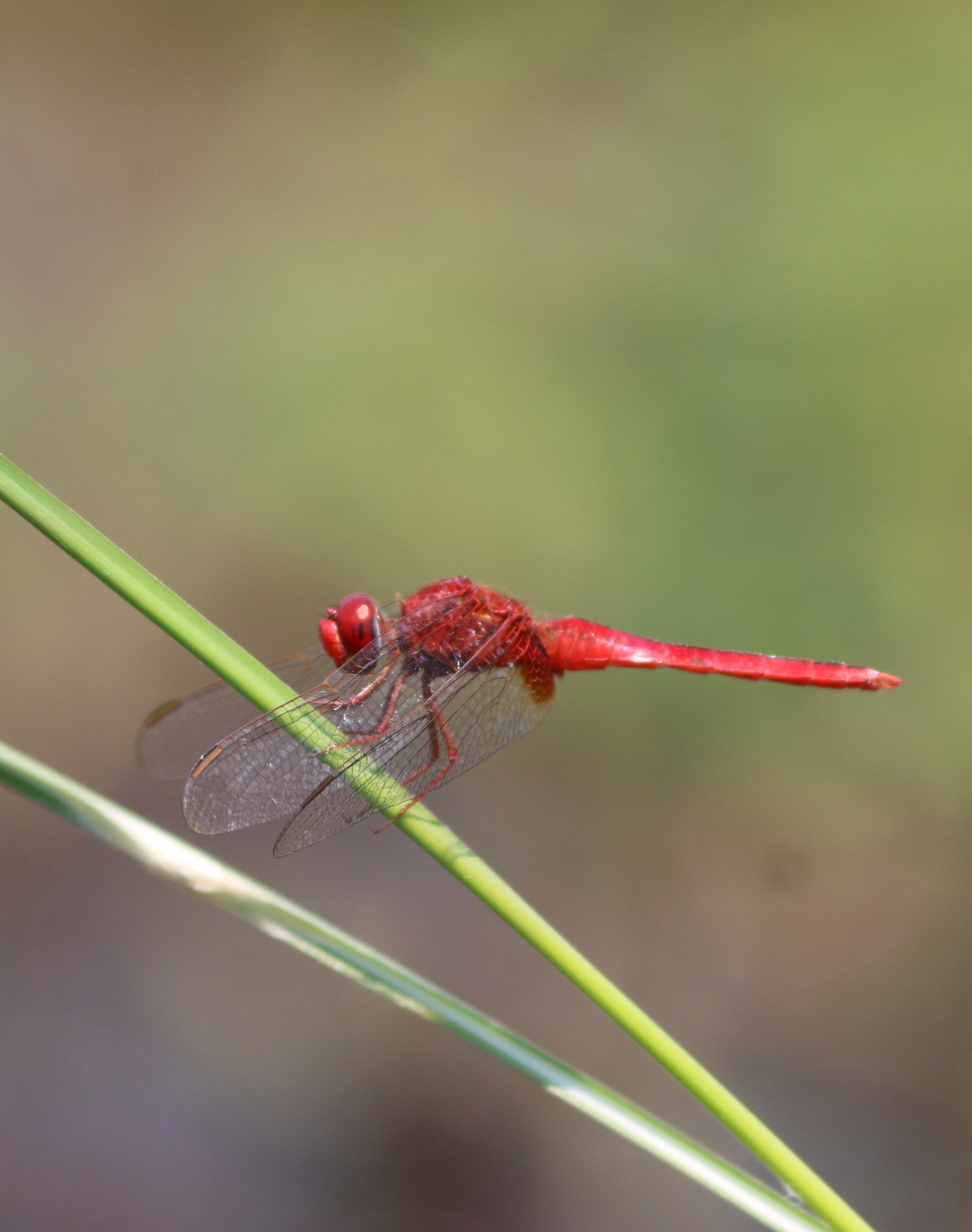 Scarlet skimmer,Ruddy marsh skimmer Crocothemis servilia വയൽത്തുമ്പി